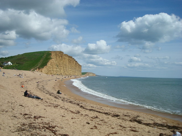 Beach, West Bay